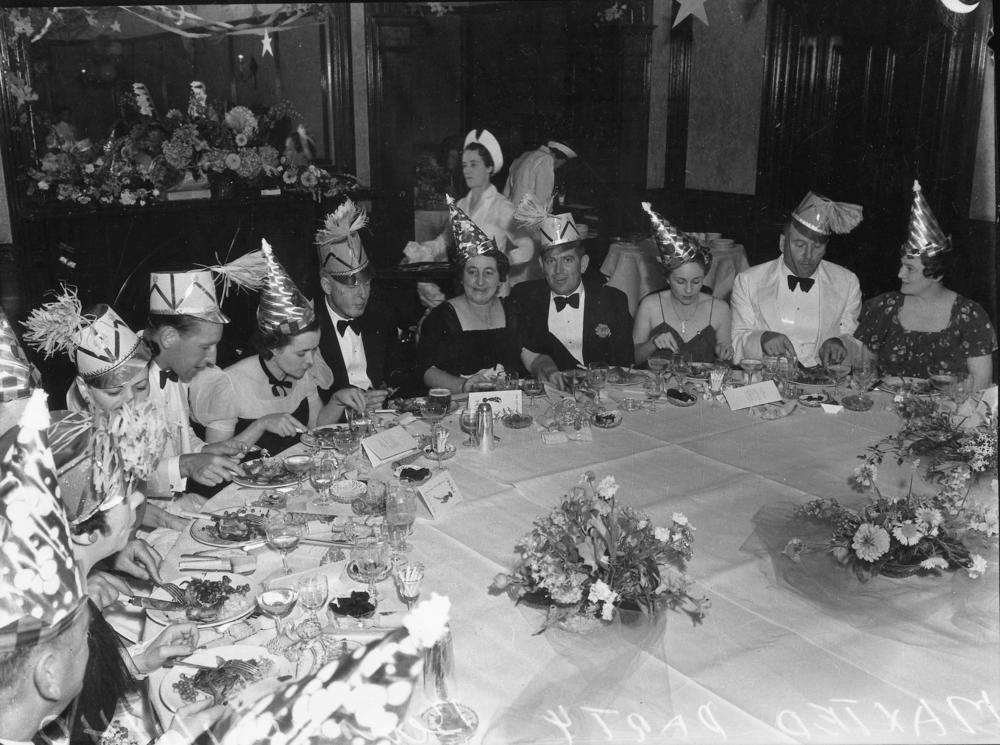 Celebrations at the Belle Vue Hotel, Brisbane, January 1940 More than 40 guests attended Mr and Mrs George Maxted's New Year's Day dinner party at the Belle Vue Hotel. In the centre of the picture from right of the lady leaning forward : Harry Weld, Mrs George Maxted, Barney Fay and Mrs Len Maxted is third from right in an evening dress with straps. (Description supplied with photograph.).